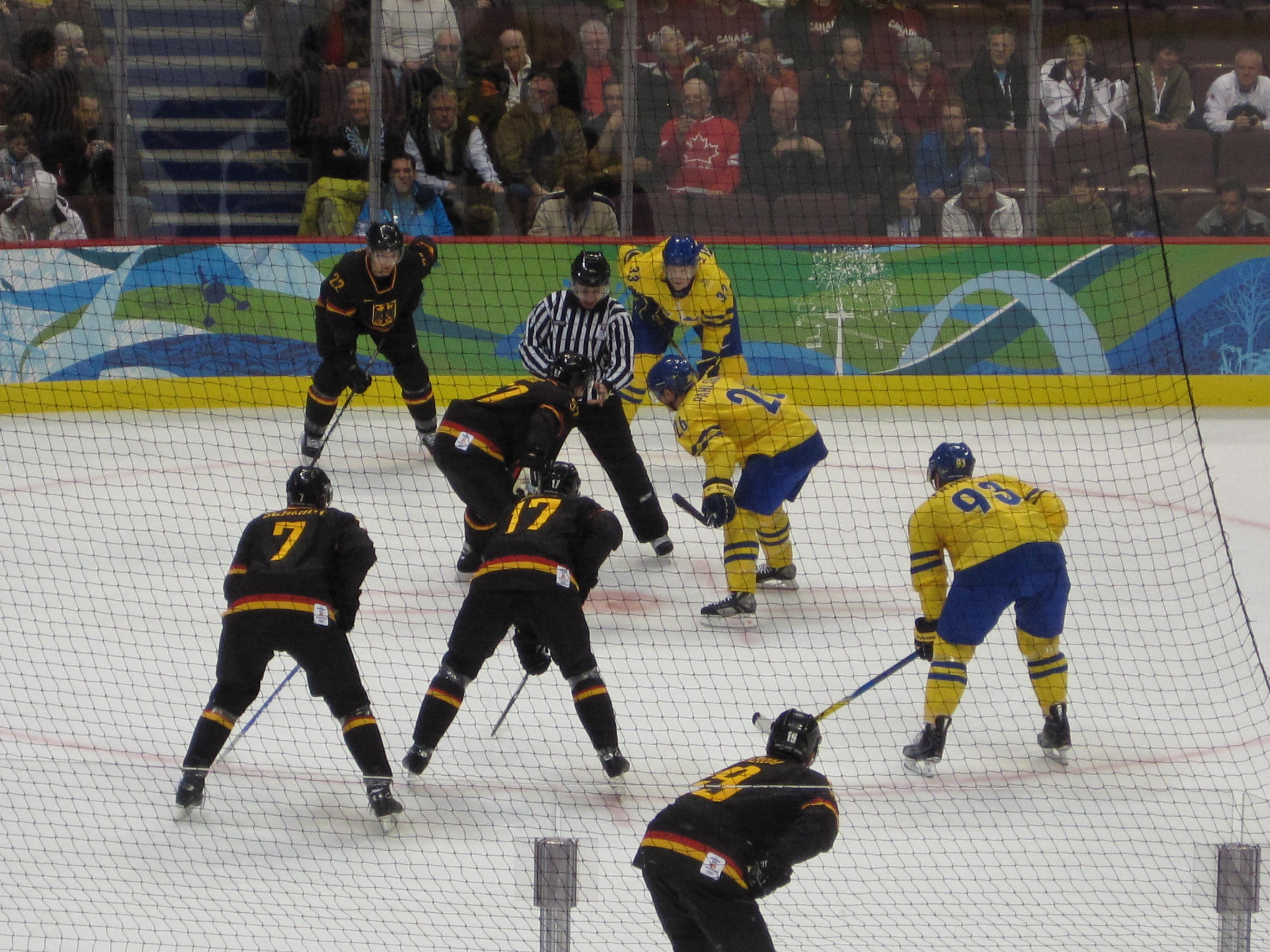 Men's Hockey Sweden v Germany at the 2010 Winter Olympics